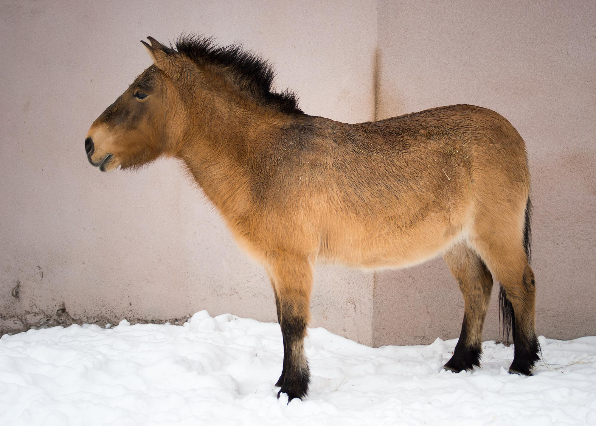 Лошадь Пржевальского в Московском зоопарке